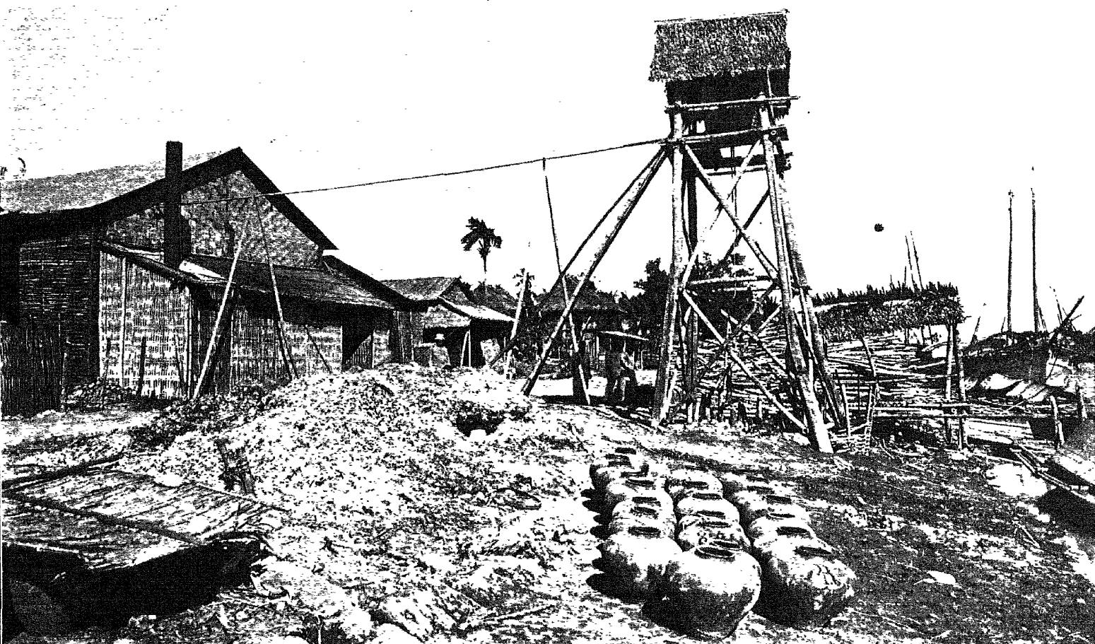 A primitive distillery in the nipa district of Pangasinan Province near the Gulf of Lingayen. The photograph shows the drawing of water for the condenser, by hand, from a well at the river bank, and the pipe for conducting the water to the condenser (Photograph by Cortes)